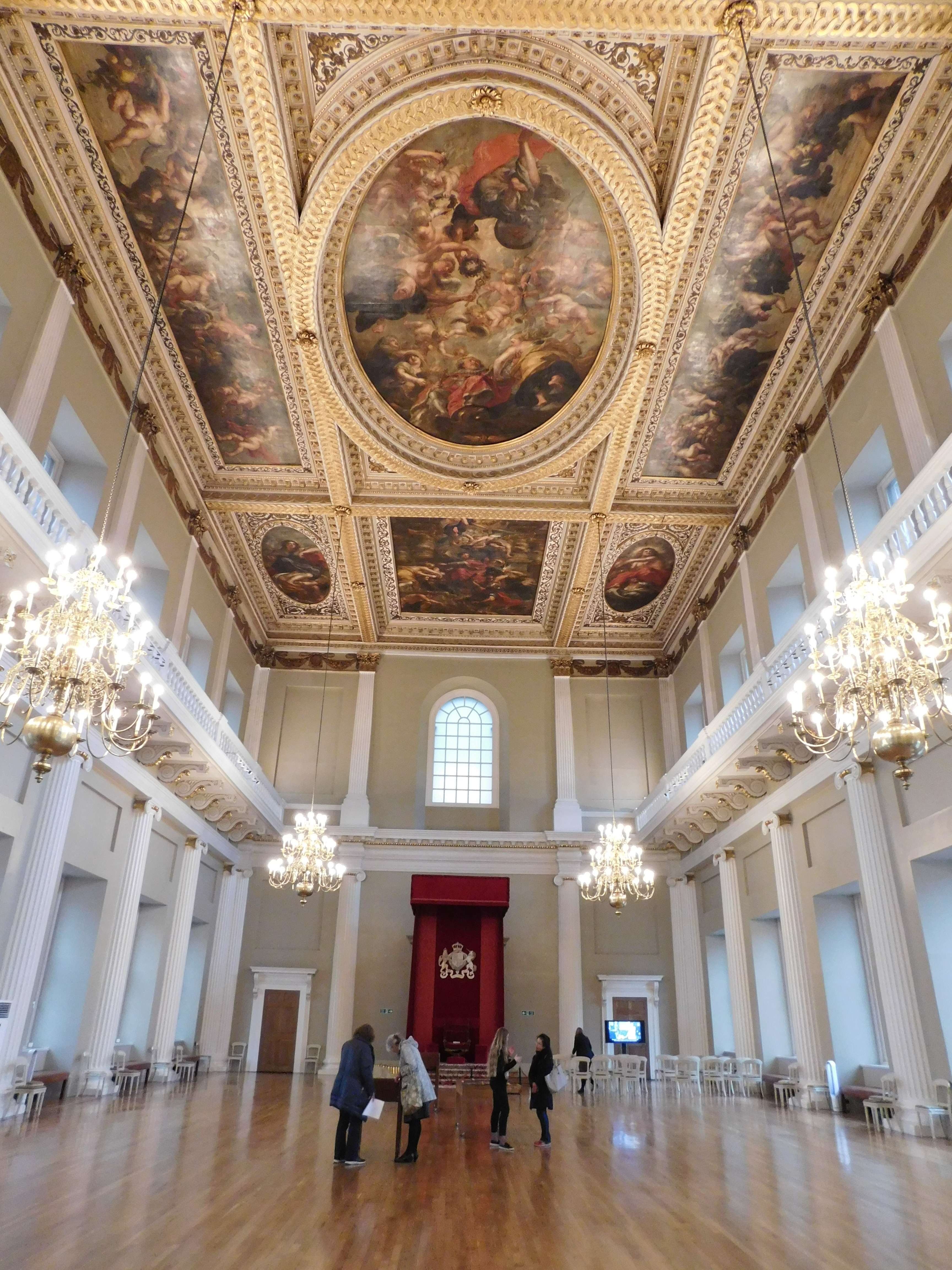 Banqueting House Wikidata has entry Q642039 with data related to this item.